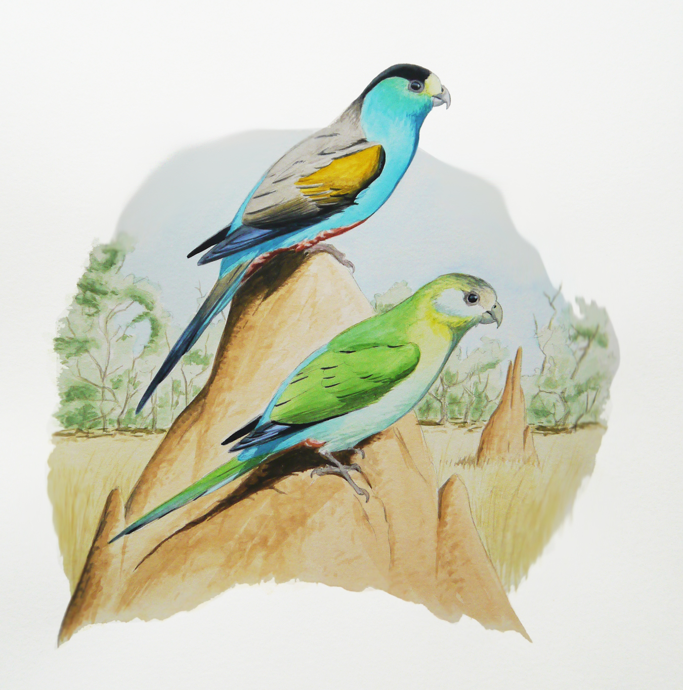 Golden-shouldered Parakeet (Psephotus chrysopterygius) - watercolor, Romain Risso.